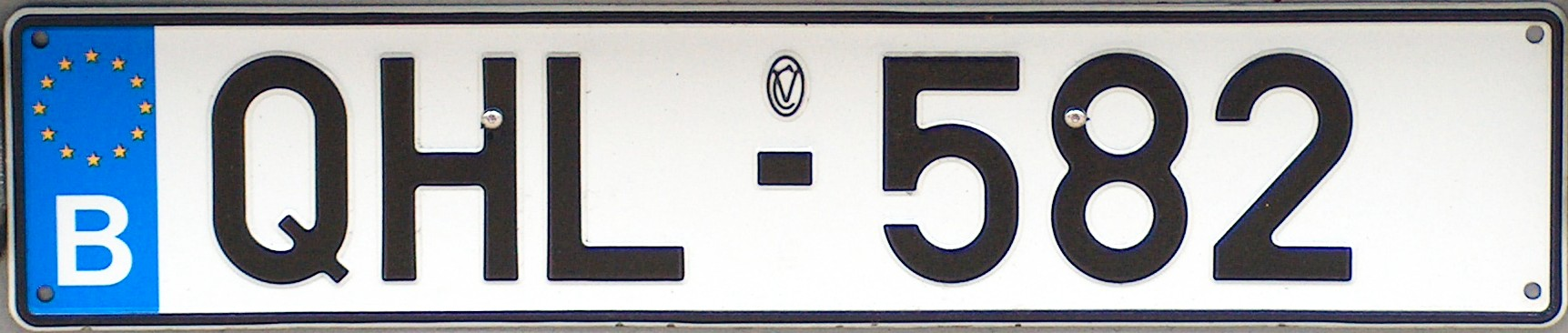 Belgian license plate for trailers